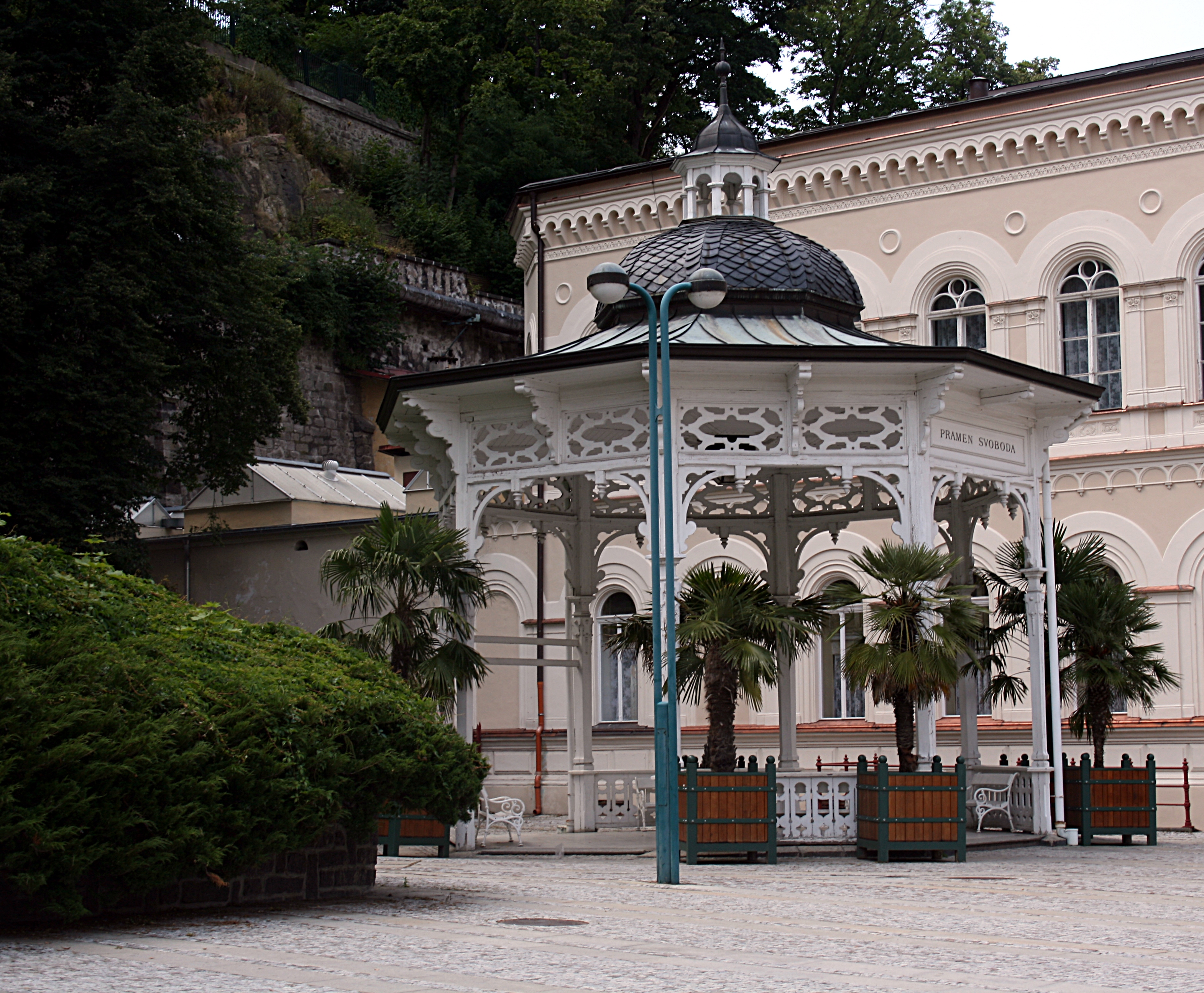 Karlovy Vary, Spring "Liberty"